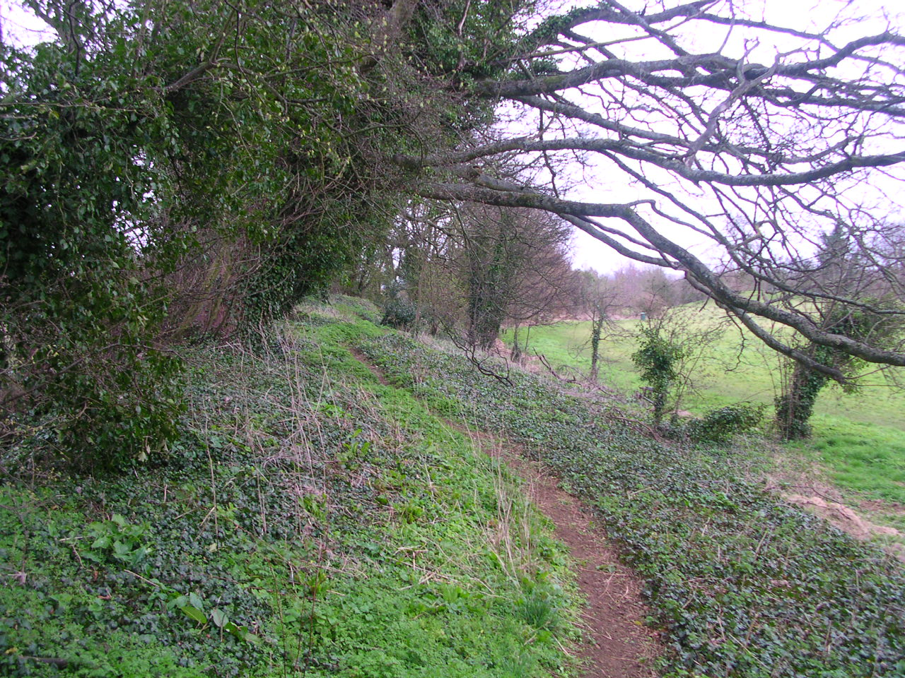 Part of an earthwork of Deddington Castle, Oxfordshire, England